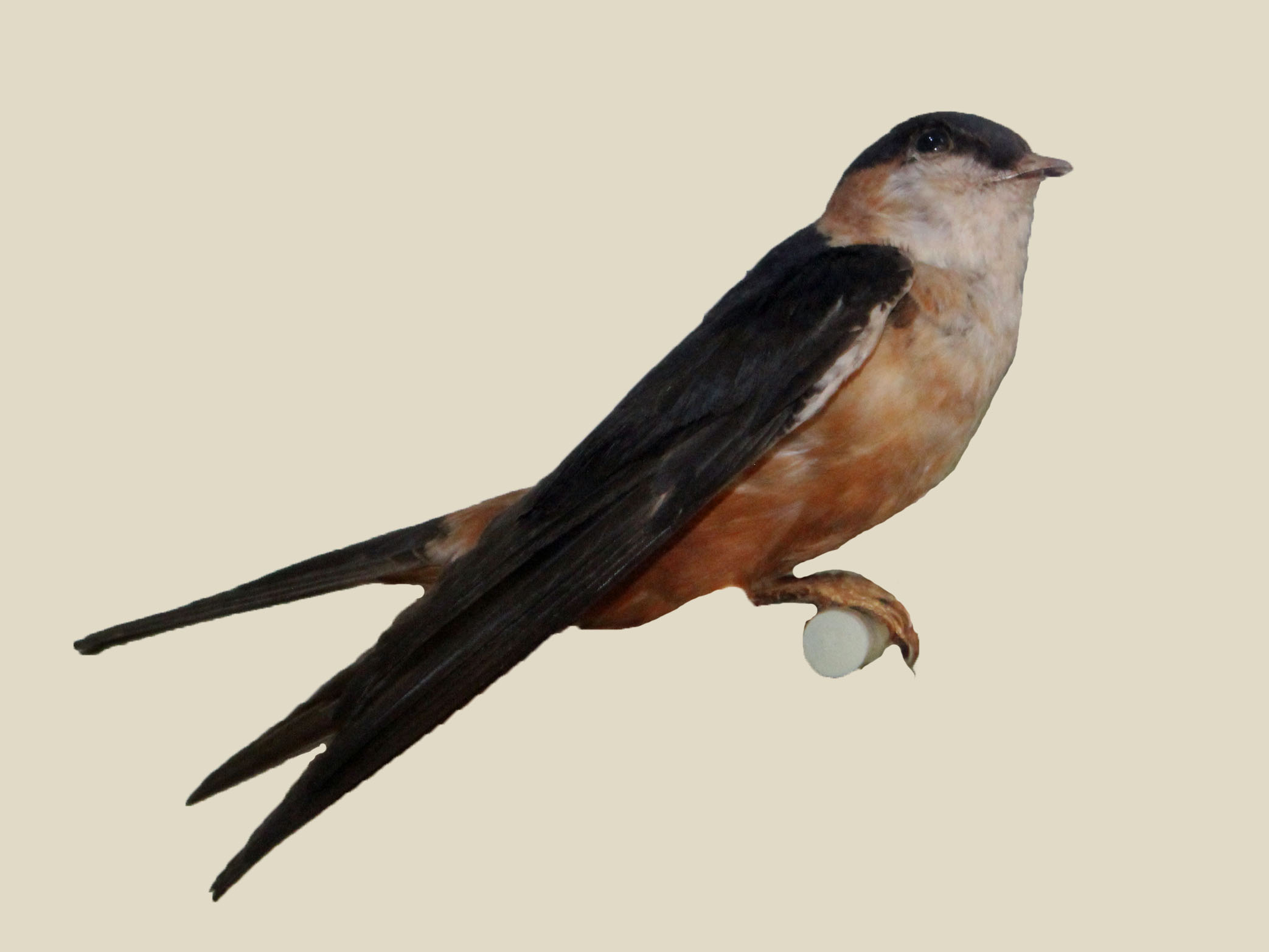 Mosque Swallow (Cecropis senegalensis). Photograph of a specimen at Nairobi National Museum in Nairobi, Kenya.